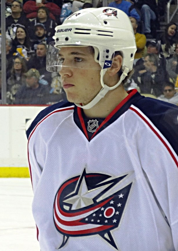 Columbus Blue Jackets forward Cam Atkinson during a game against the Pittsburgh Penguins, November 1, 2013, at Consol Energy Center in Pittsburgh, PA.